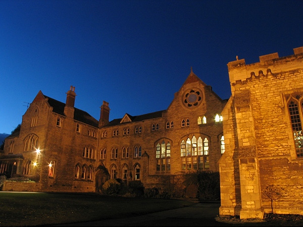 Stamford School illuminated at night.